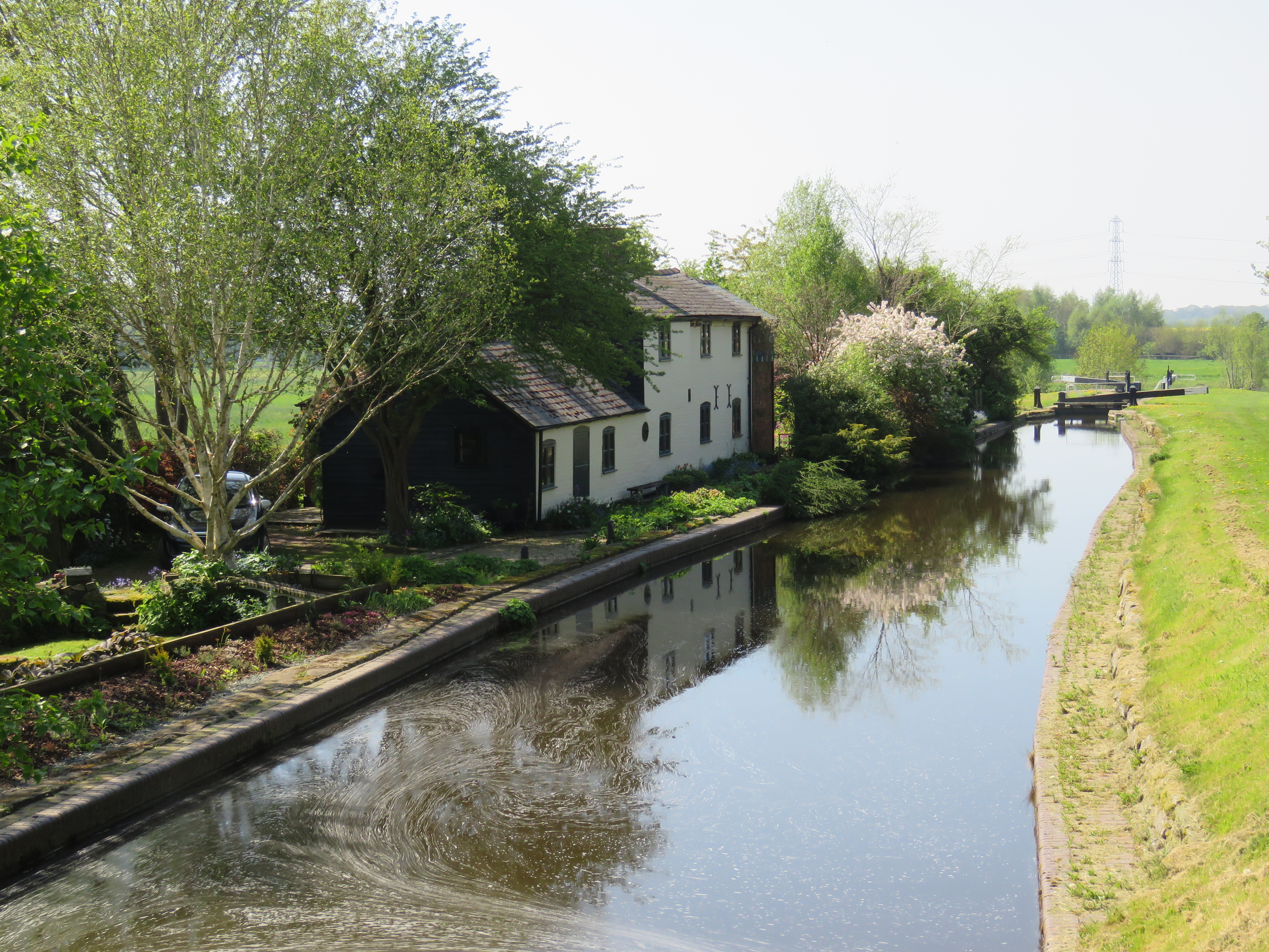 Montgomery Canal, Shropshire